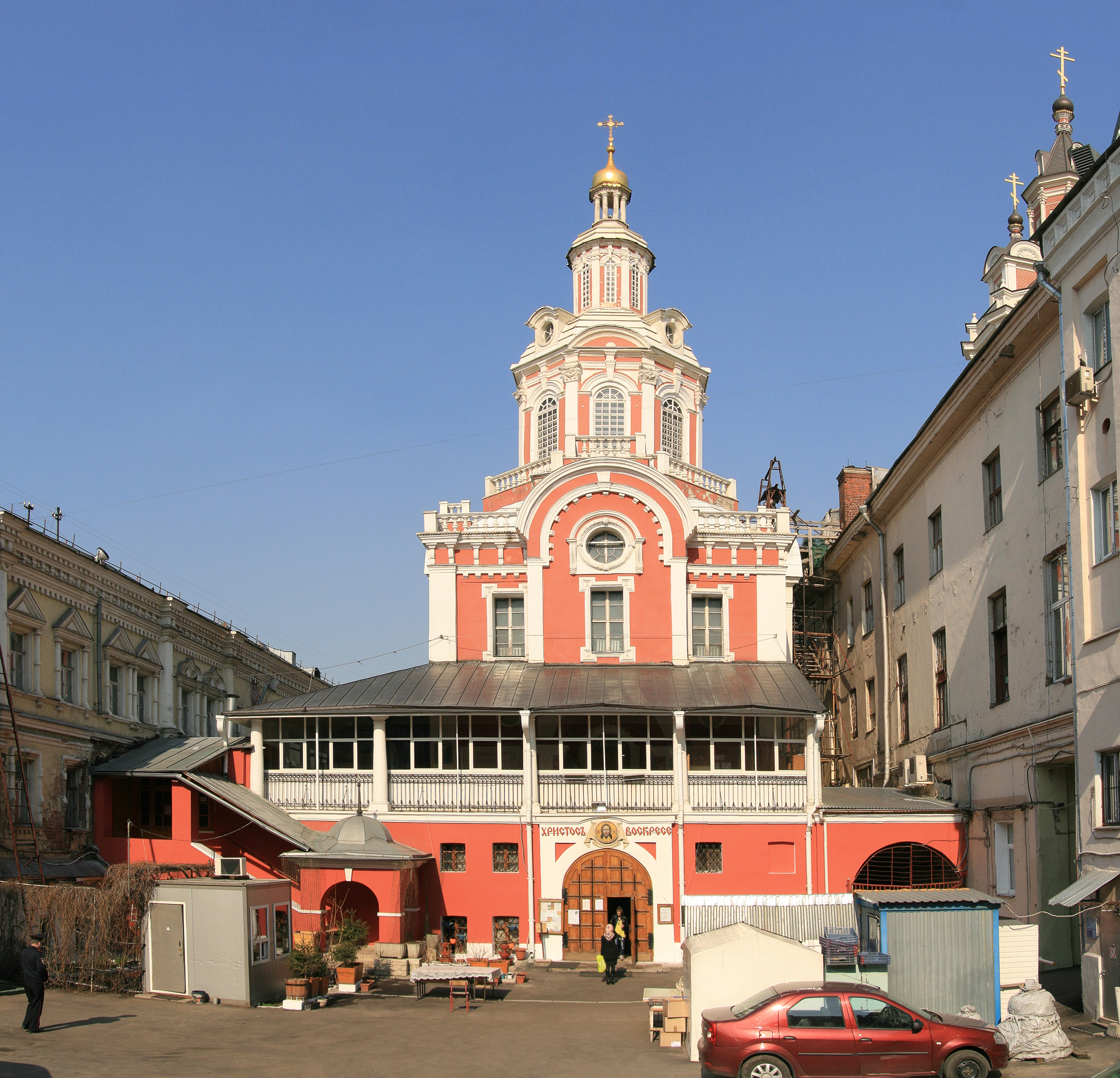 Church of the Holy Mandylion at Zaikonospassky Monastery, Moscow